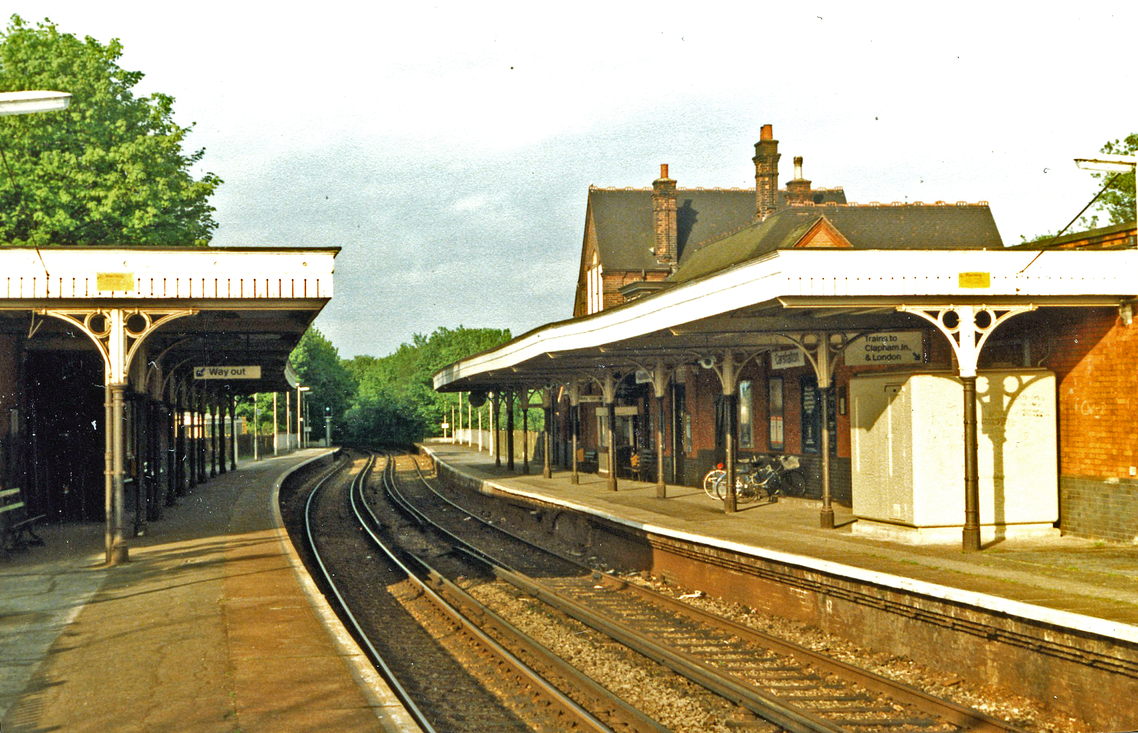 Carshalton station, 1986. View NE, towards London Victoria/London Bridge via Mitcham Junction: ex-LB&SCR London - Sutton - Dorking - Horsham - South Coast line.